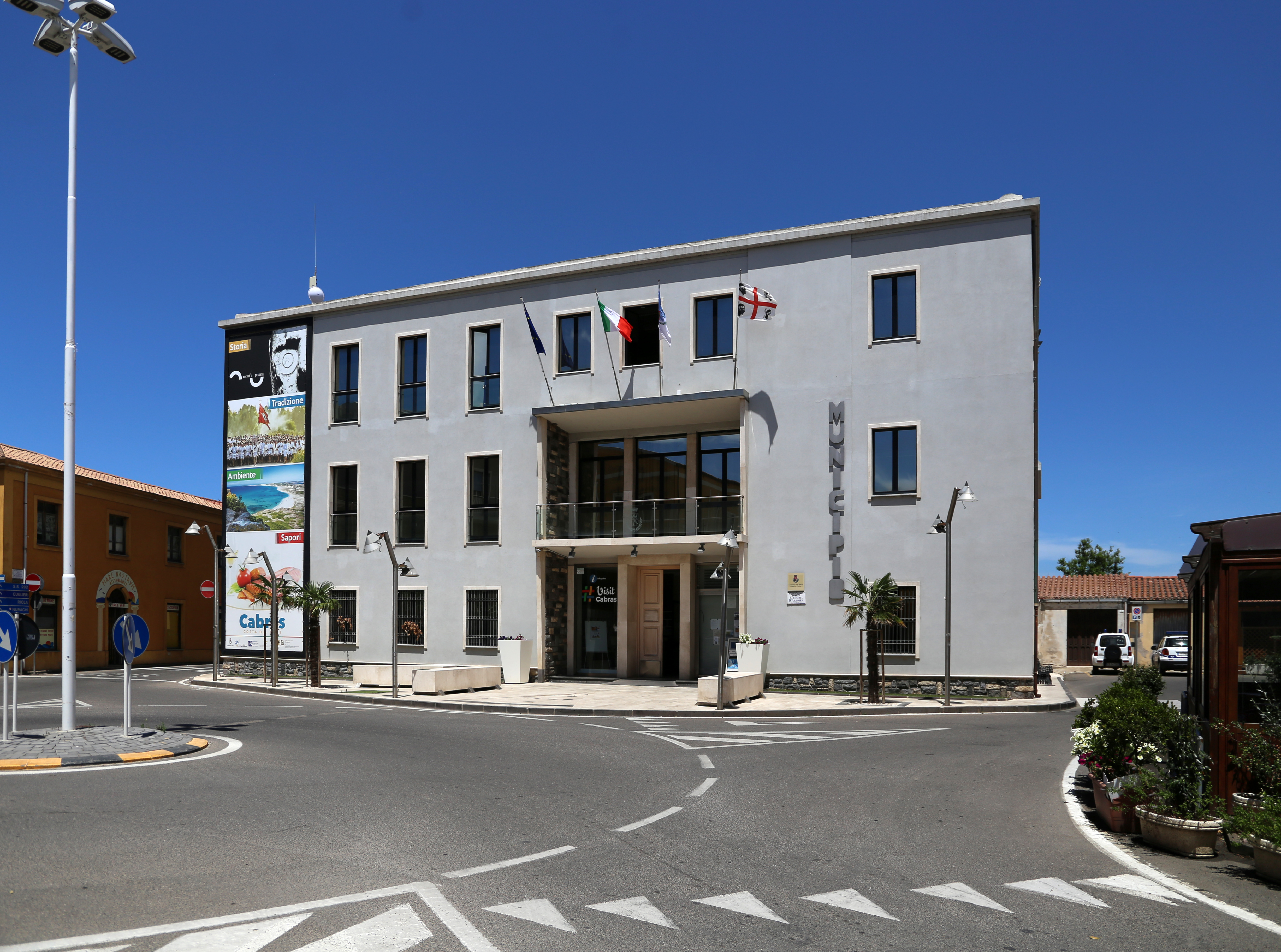 Cabras, Sardinia